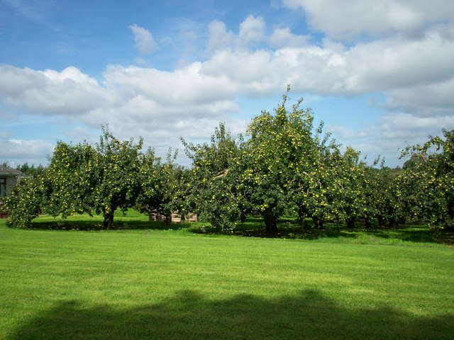 Apple Orchard, Red Lion Road, Loughgall. This orchard is one of many in this apple growing region of County Armagh, famous for the quality of the Bramley Cooking Apple.